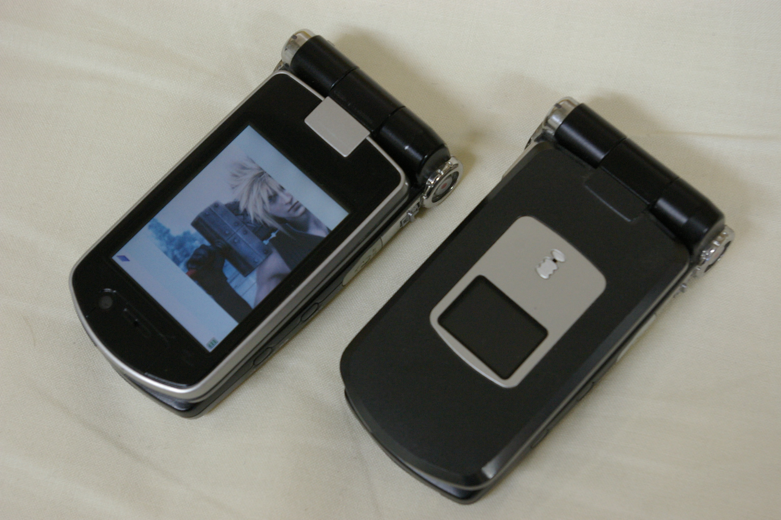 Panasonic P900iV (Cloud Black) close style.